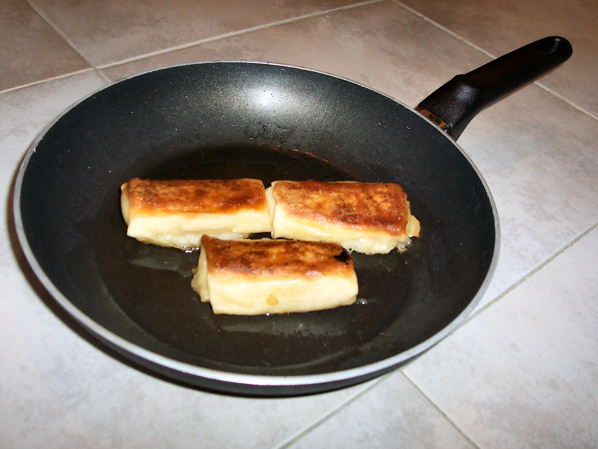 Freshly cooked frozen blintzes in a frying pan. Photo taken by me, in the kitchen of my house.